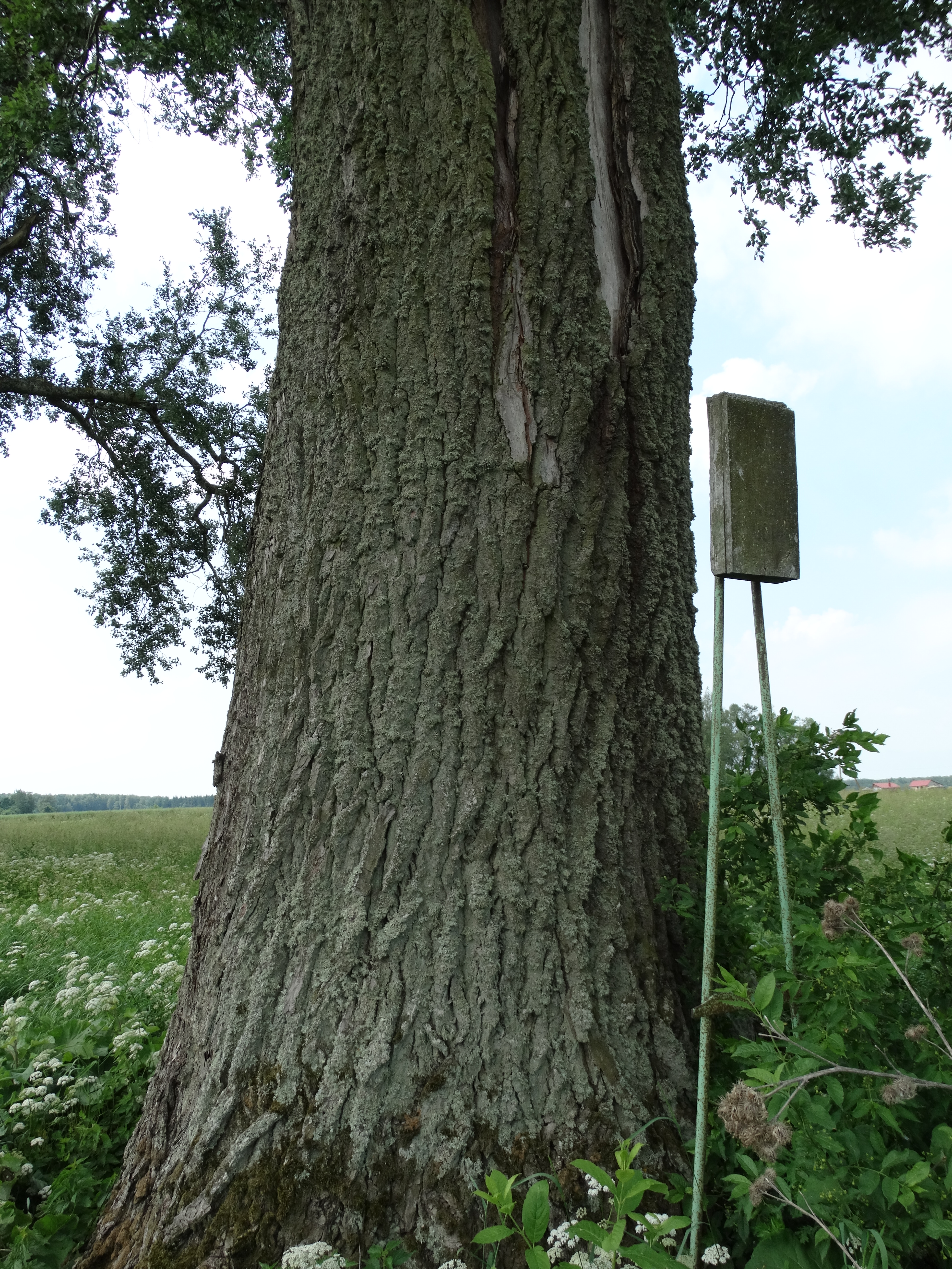 White poplar, Atkočiai, Ukmergė District, Lithuania